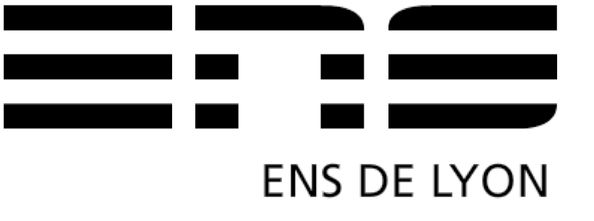 Logo of the ENS de Lyon